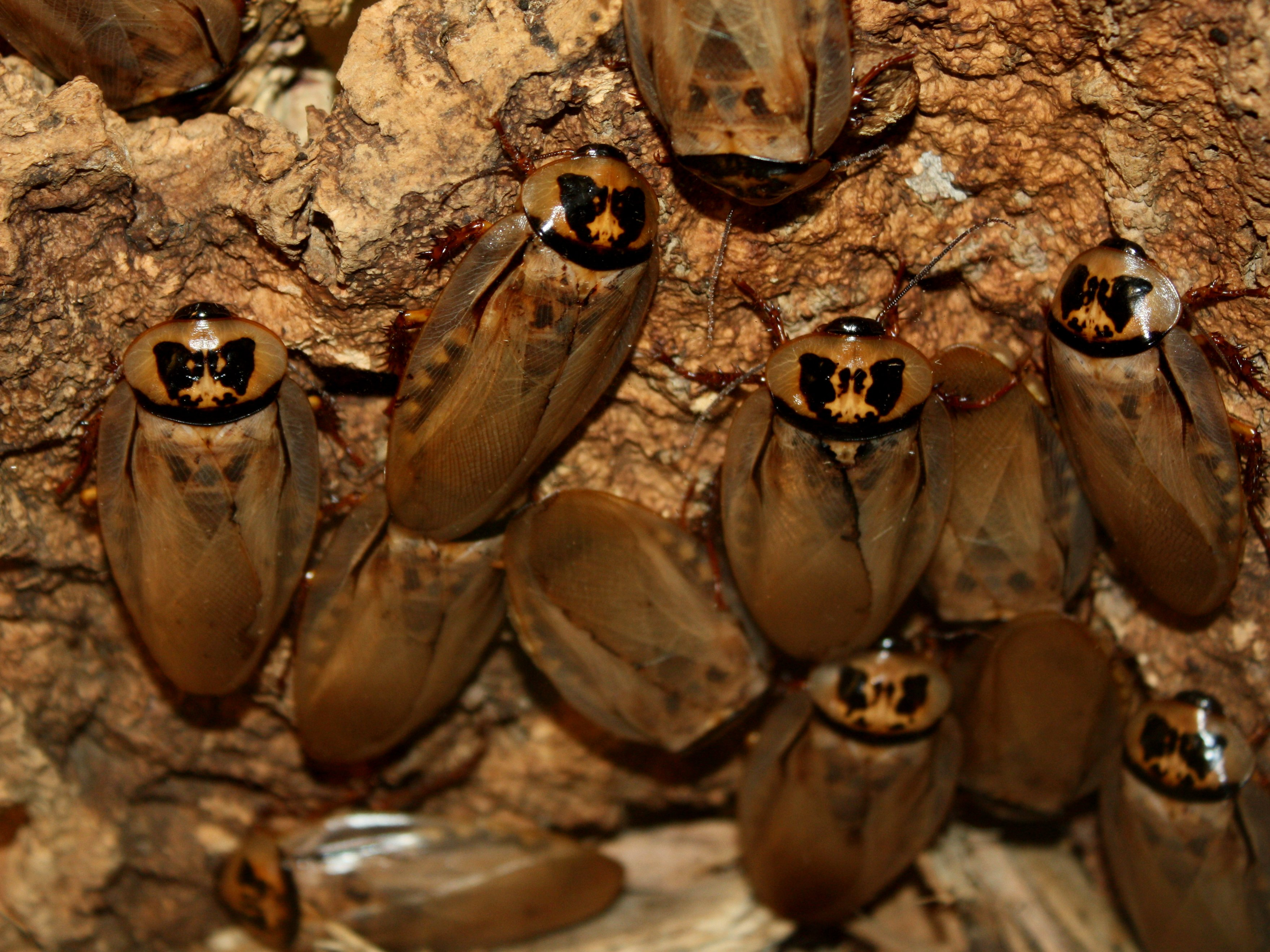 Bat Cave Cockroach "Eublaberus distanti" at the Cincinnati Zoo